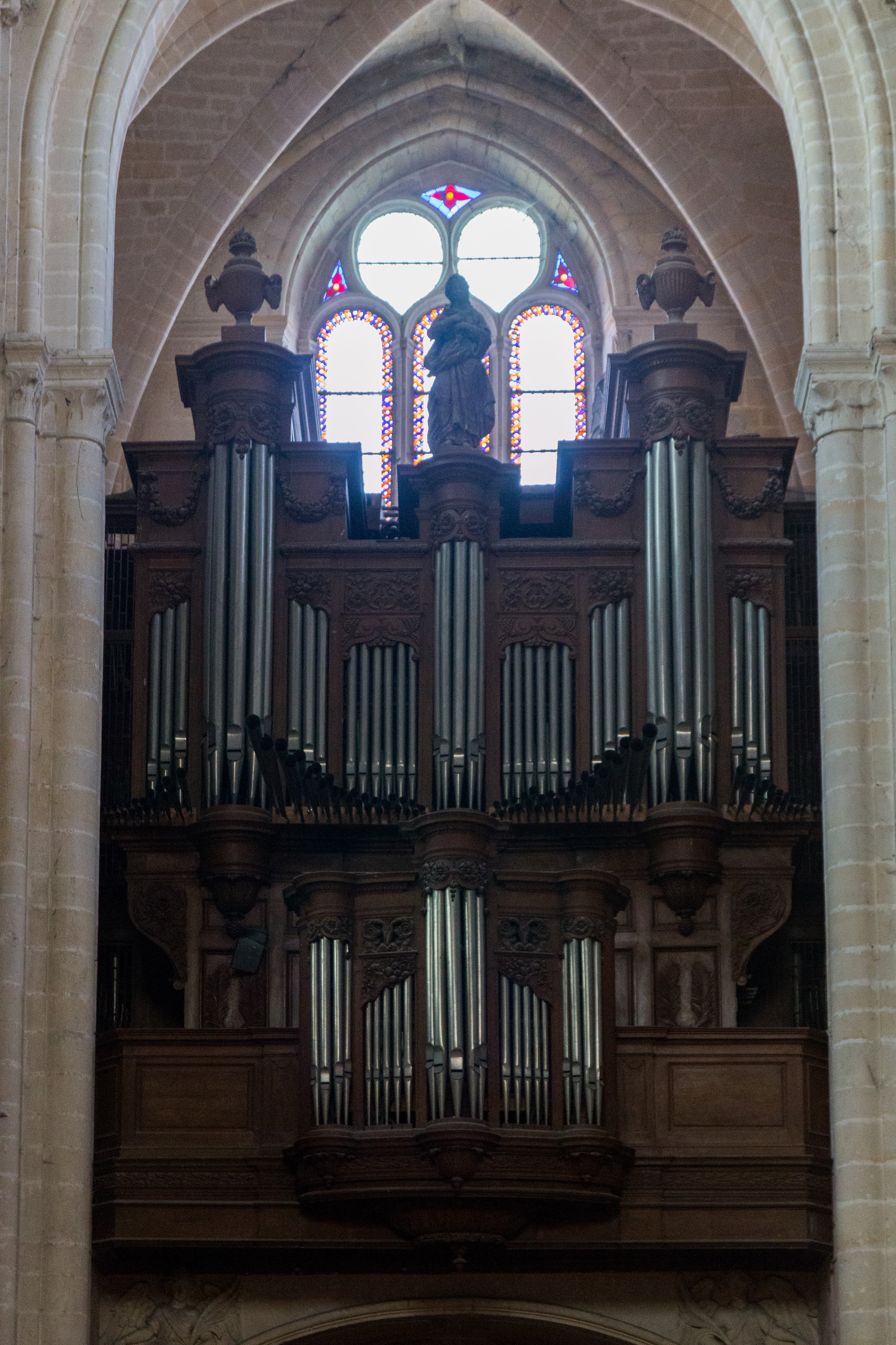 Pipe organ on the Senlis Cathedral.